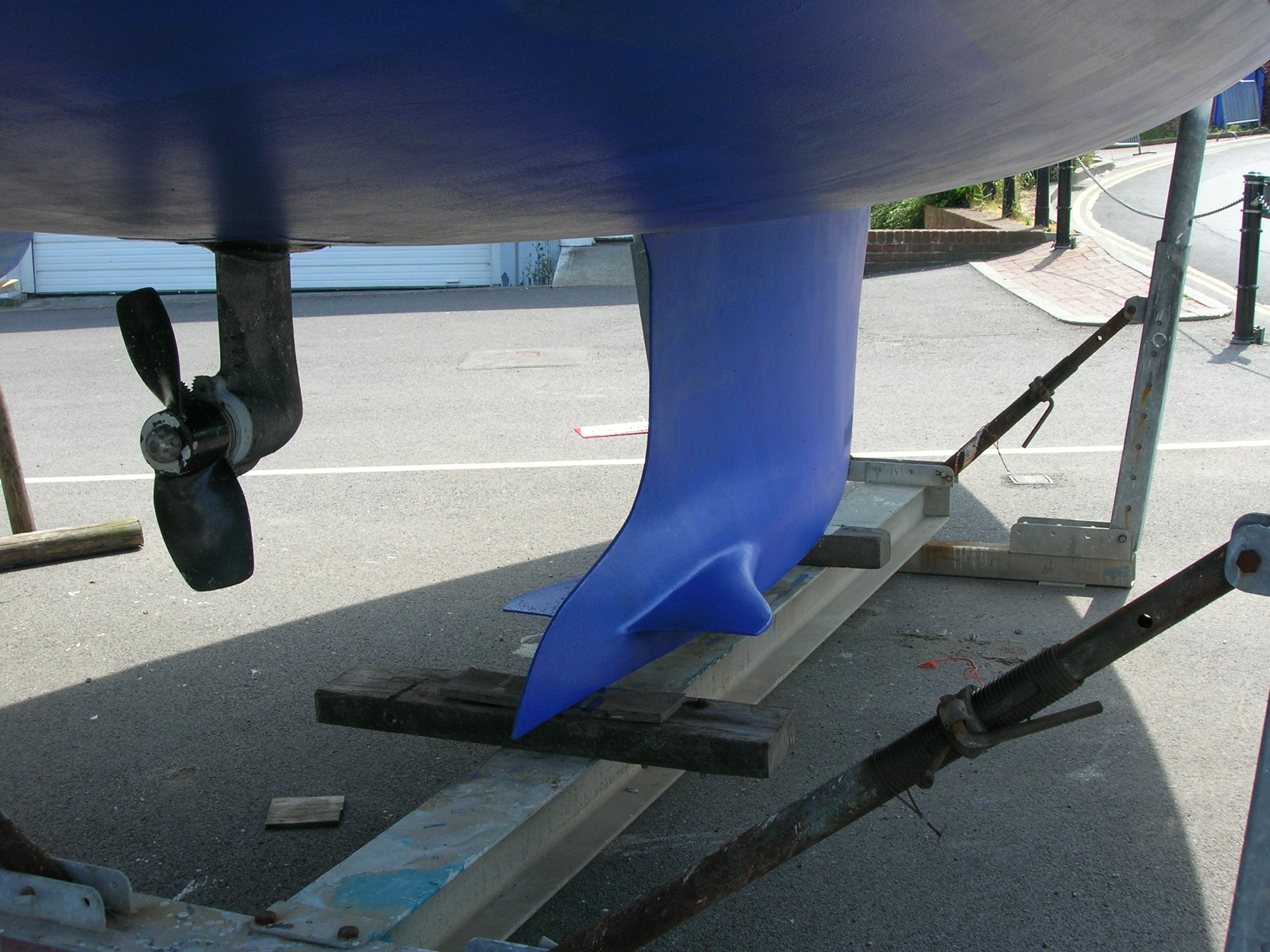 Keel with winglets designed to improve the stream of water.